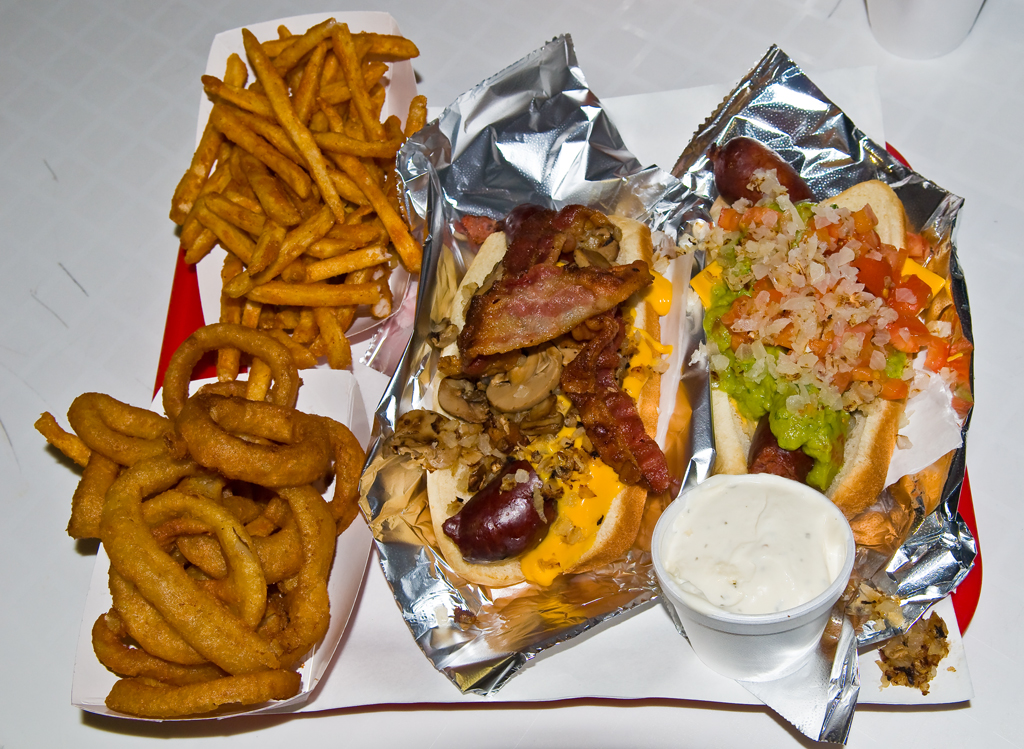 its been years since i stopped by for a meal at pinks hot dogs so i decided i needed to come back here. naturally me and megz ordered one of their "super special" hot dogs. all i can is, they were so good that my heart will probably never forgive me, and they're also quite challenging to eat without getting too messy. i still think my favorite hot dogs in los angeles are from the street vendors who sell them bacon-wrapped hot dogs, apparently the city is cracking down on those vendors though... something to do with health concerns or something to do with permits or some shit like that... not that it would stop me from ordering one if i see a vendor...